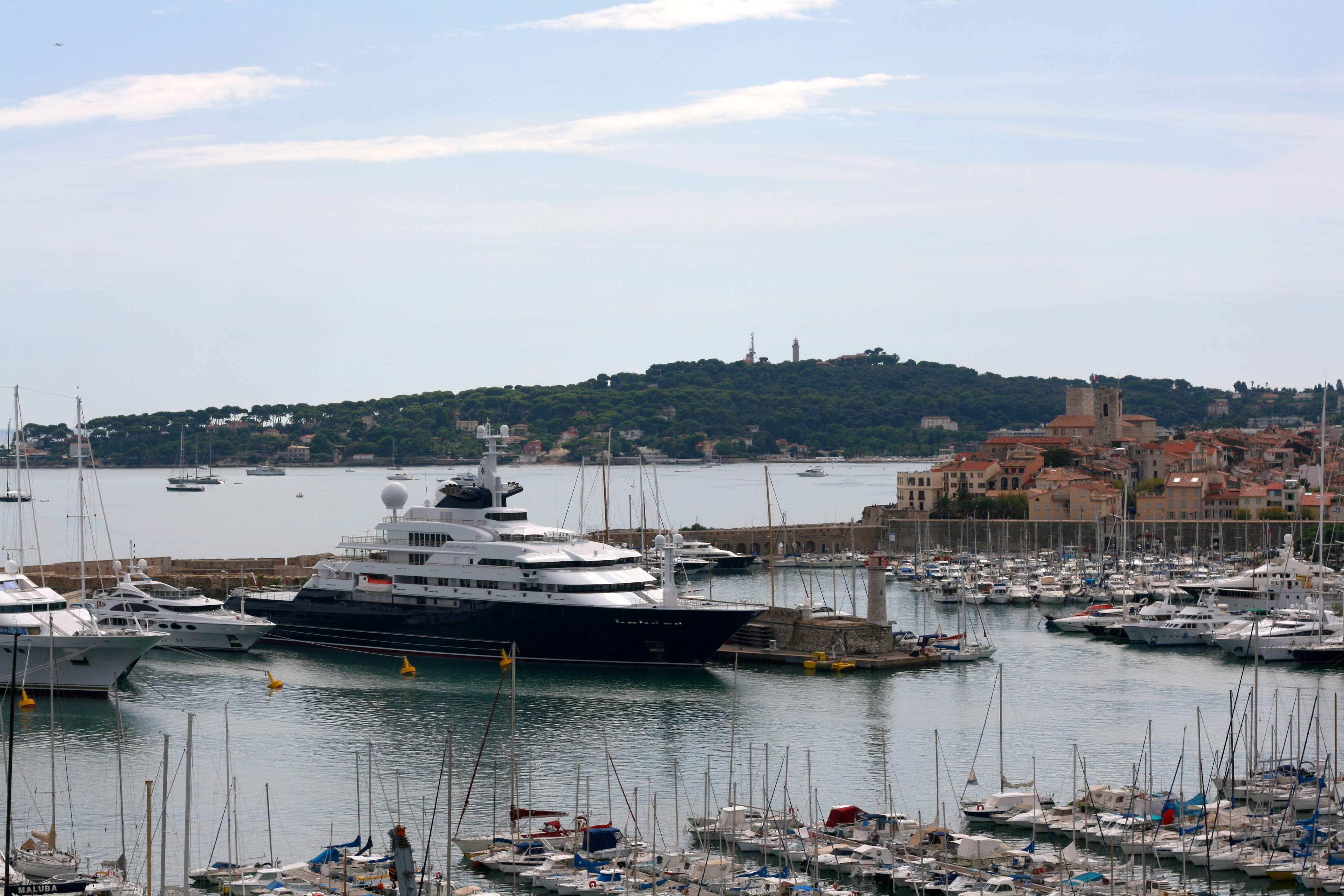 Port Vauban with Antibes behind, as seen from the Fort Carré, France.